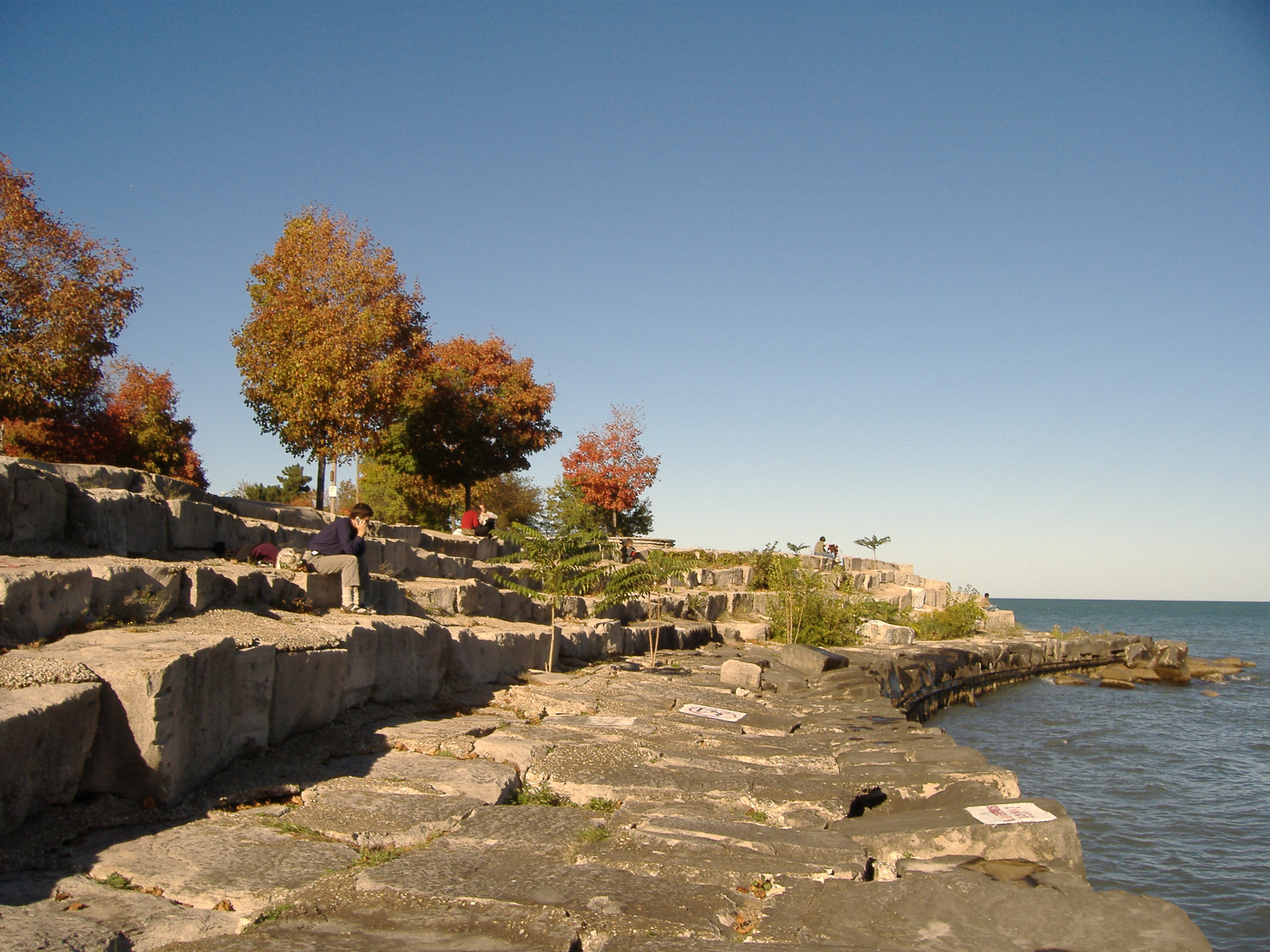 Photo of Chicago's Promontory Point from the south side.